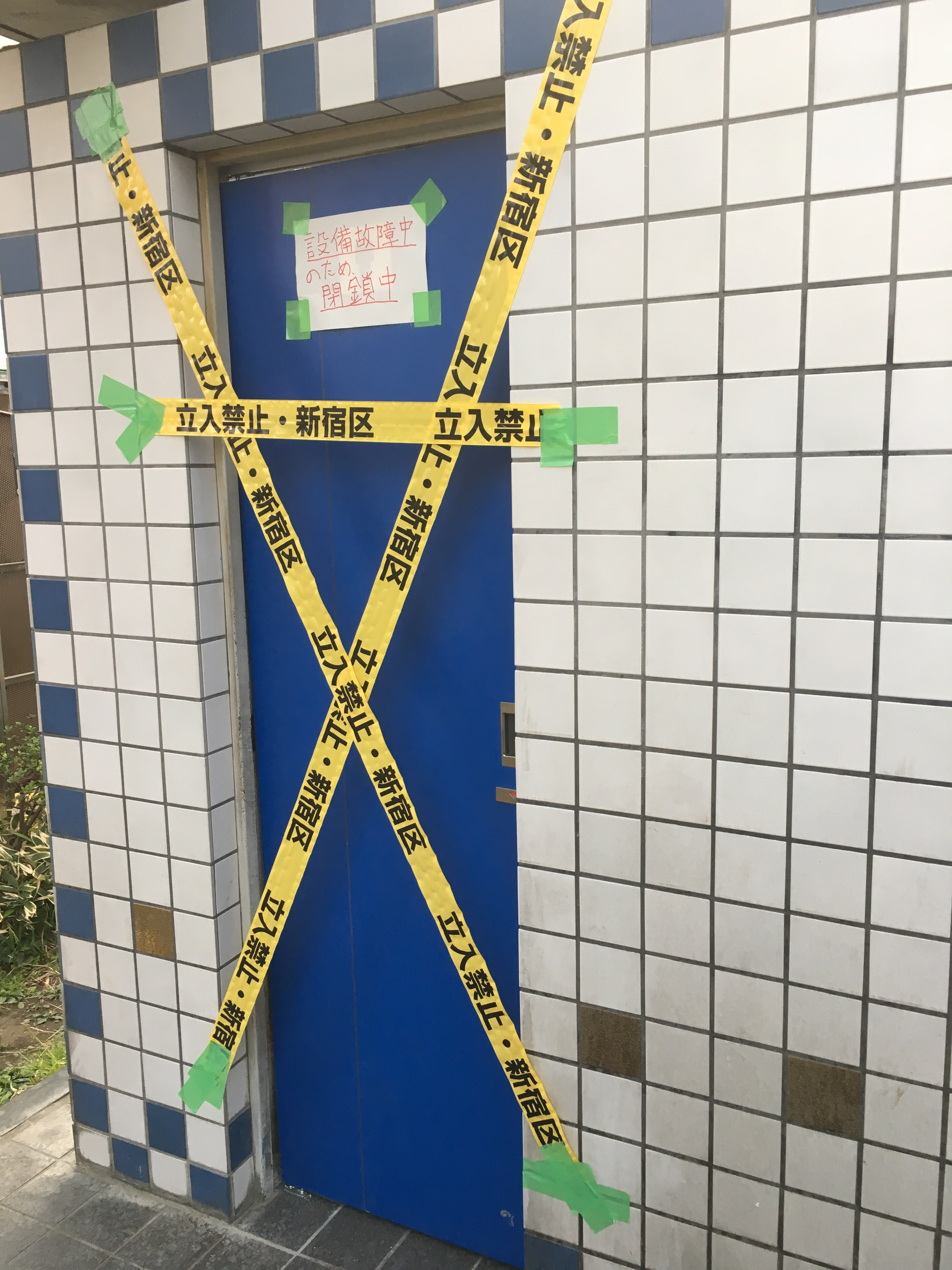 Barricade tape in Toyama 2-chōme, Tokyo.